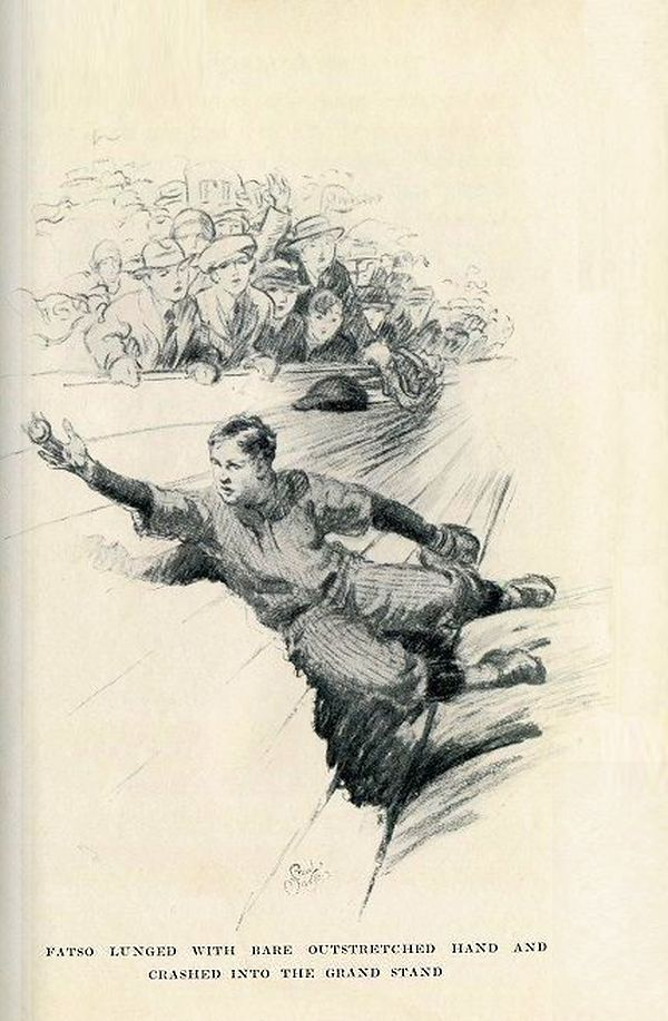 An outfielder making a barehanded play.